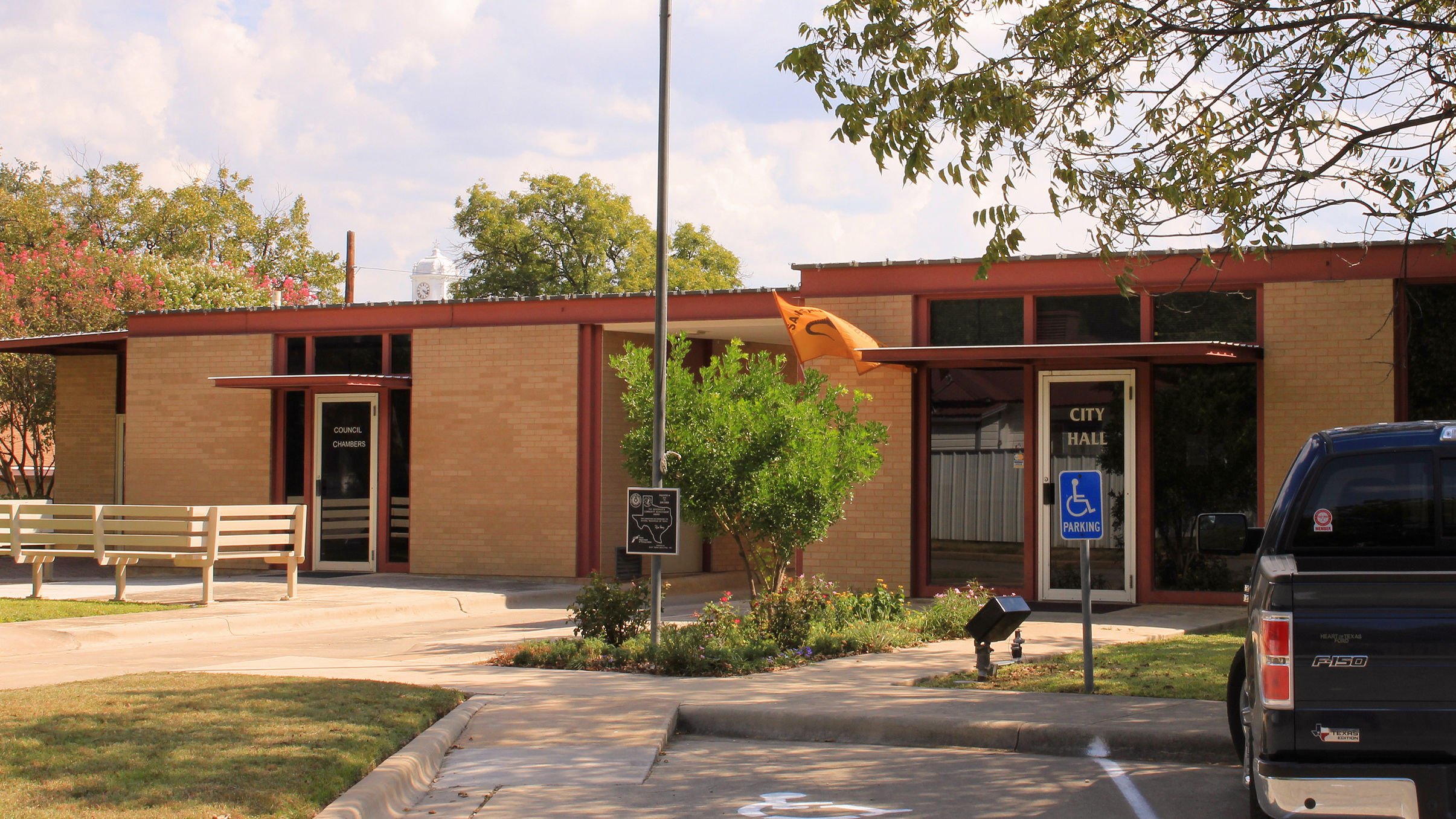 San Saba, Texas City Hall.